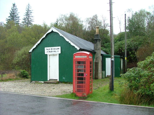 Salen Village Hall By the side of the B8007 Salen/Kilchoan road.